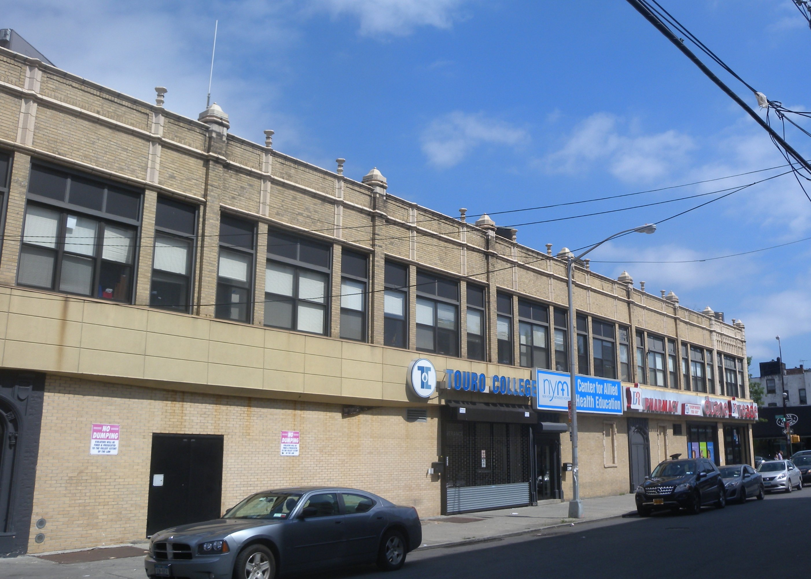 Looking southeast across East 14th Street at Tuoro College Kings Highway on a mostly sunny afternoon.